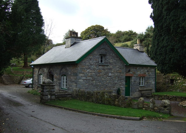 Treffgarne Lodge At the entrance to the approach road for Treffgarne Hall.